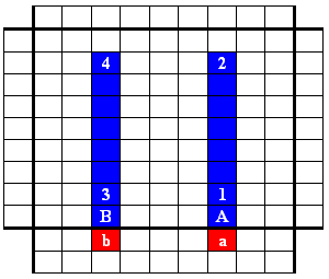 Orientation of last layer after correction for 9x9x9 Rubik’s family cube.